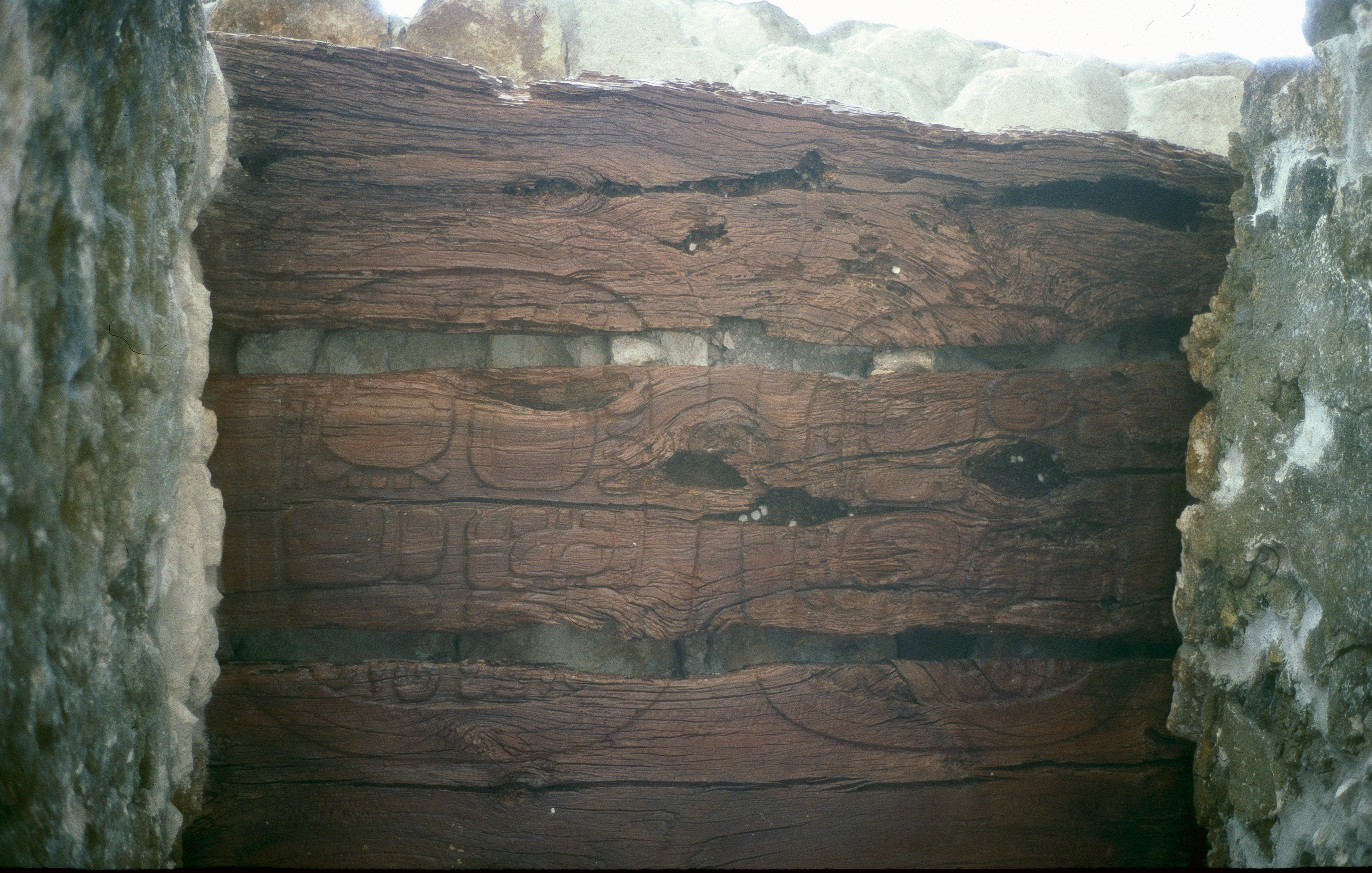 Dzibanche, Quintana Roo, Mexico: building of the lintel